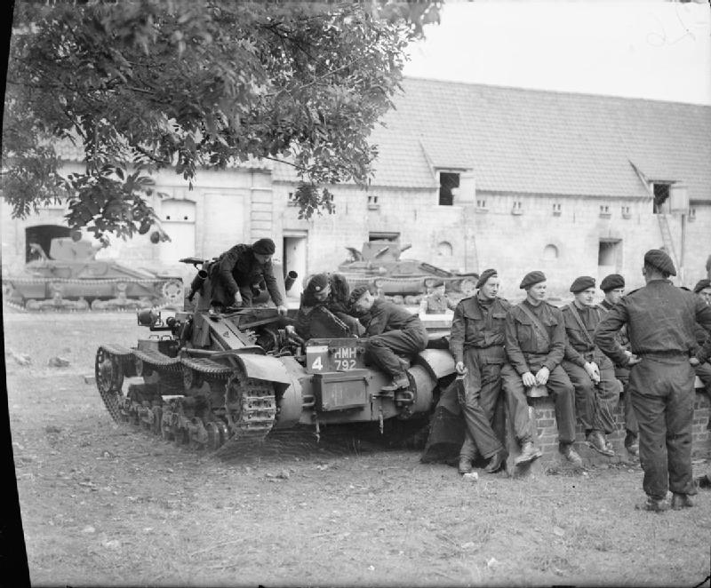 The British Army in France 1939-40 Matilda Mk I tanks and crews of 4th Royal Tank Regiment in a farmyard at Acq, 19 October 1939